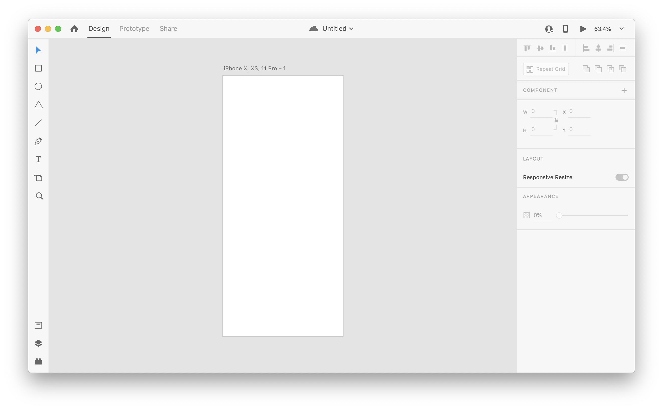 Default screen upon setup of Adobe XD